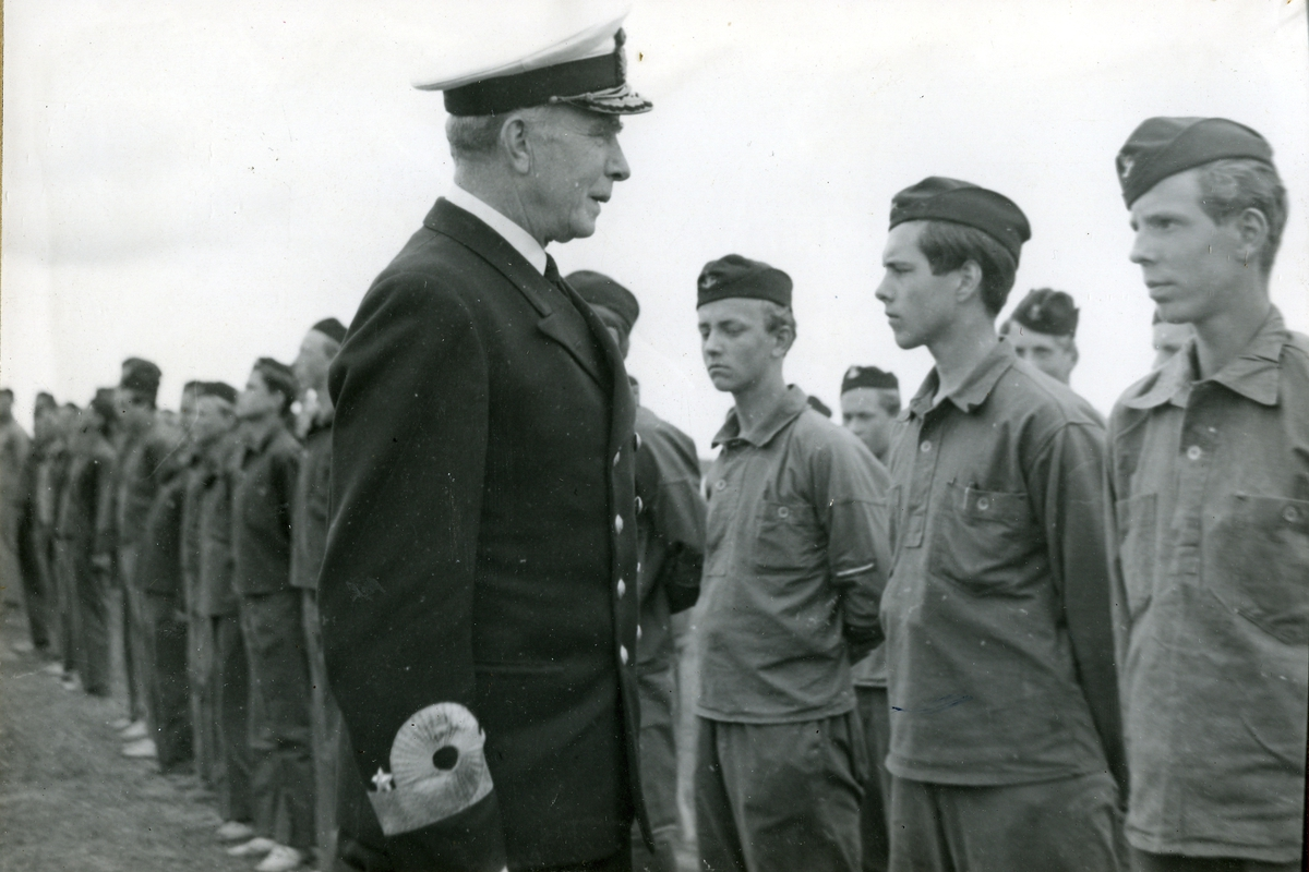 Inspection of the Swedish Sea Cadet camp at Dalarö Skans, the inspection is performed by Chief of the Swedish Navy, Vice Admiral Helge Strömbäck (1889-1960).